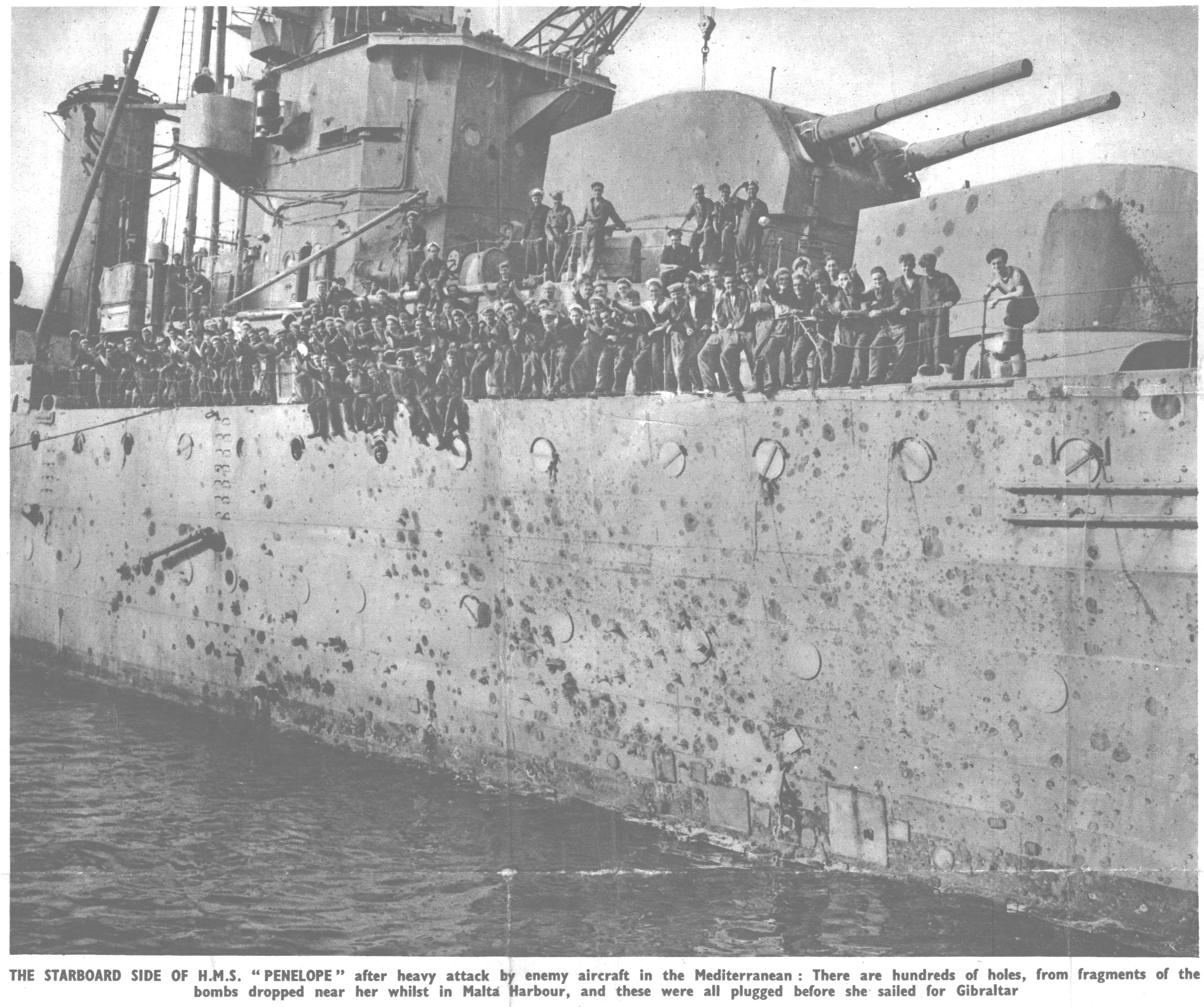 Pic from 1942 showing damage